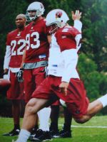 Ricky Schmitt Training Camp Punt